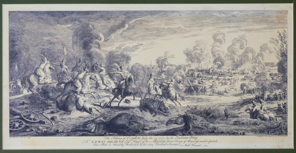 The Taking of Ochakow July the 13, 1737 by the Russian Army